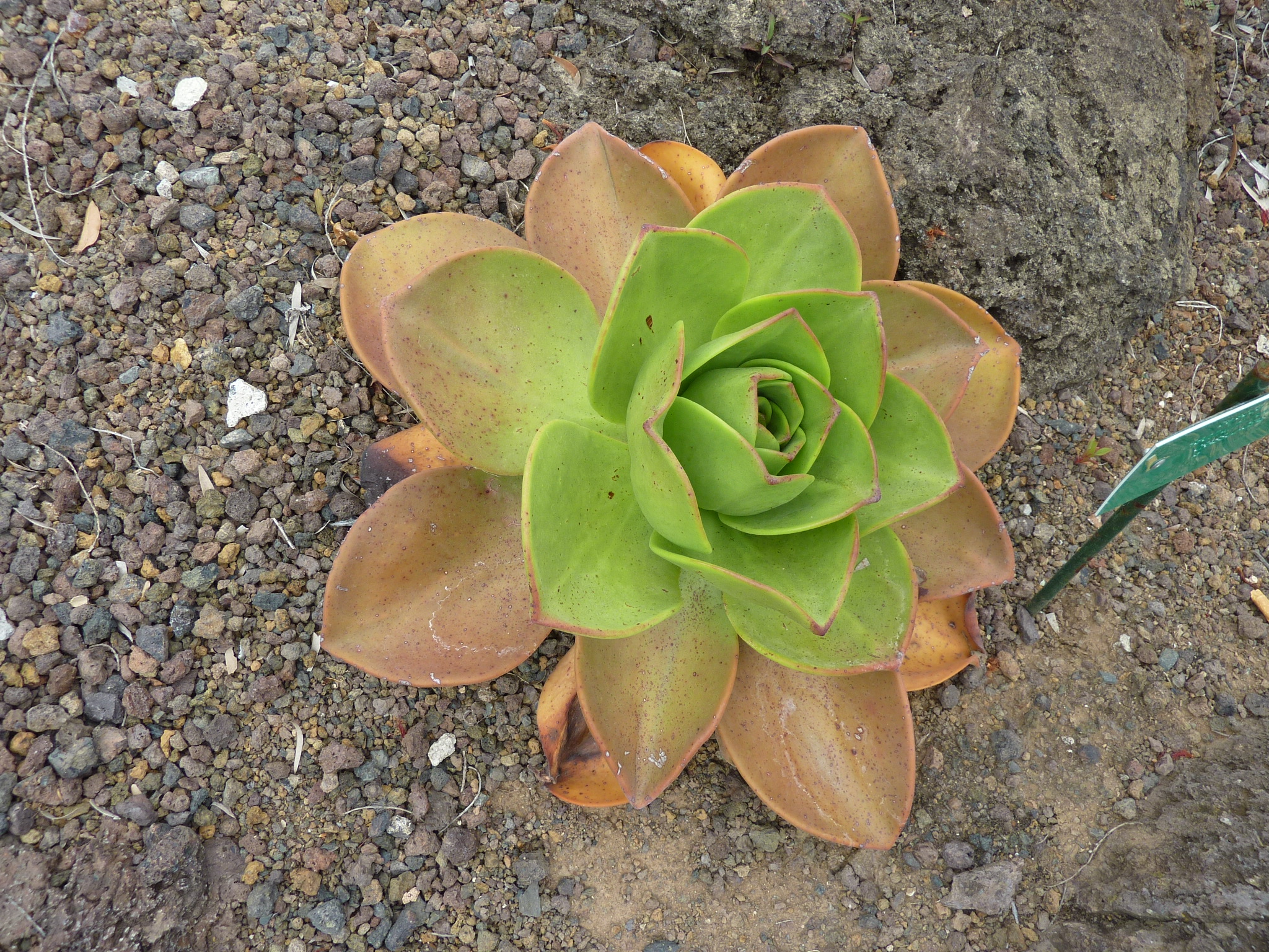 Aeonium nobile in the Jardín Botánico Canario Viera y Clavijo.